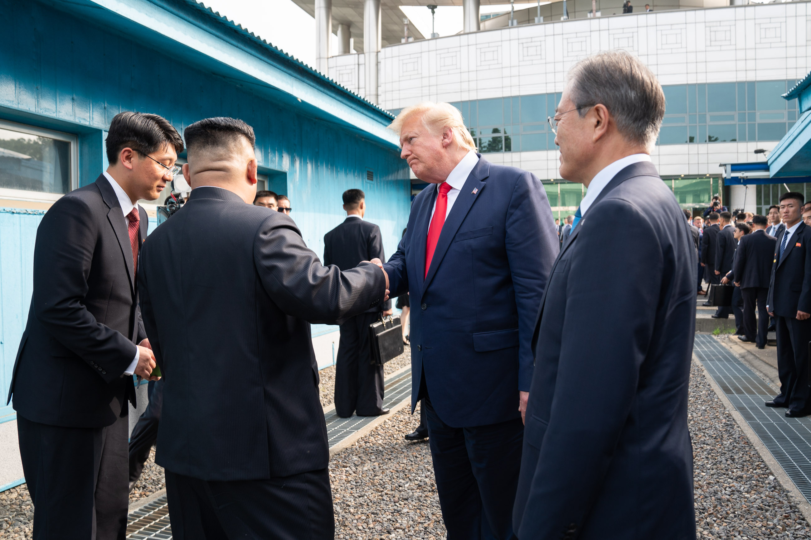 President Donald J. Trump and Republic of South Korea President Moon Jae-in bid farewell to Chairman of the Workers’ Party Kim Jong Un Korea Sunday, June 30, 2019, at the demarcation line separating North and South Korea at the Korean Demilitarized Zone. (Official White House Photo by Shealah Craighead)